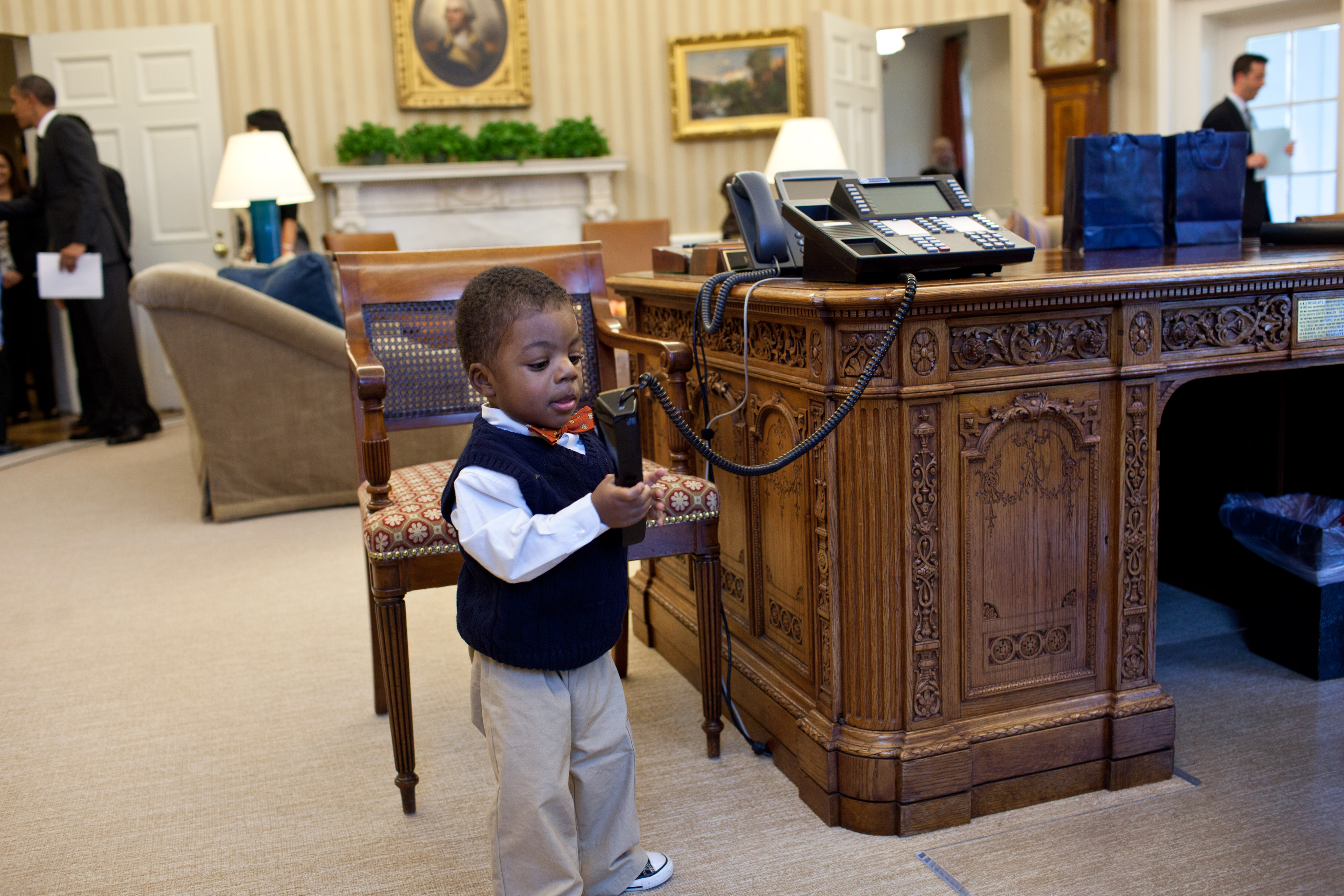 Corbin Fleming, brother of 2011 March of Dimes National Ambassador Lauren Fleming, plays with United States President Barack Obama's telephone during his family's visit to the Oval Office on 7 February 2012. The President is in the background at left.